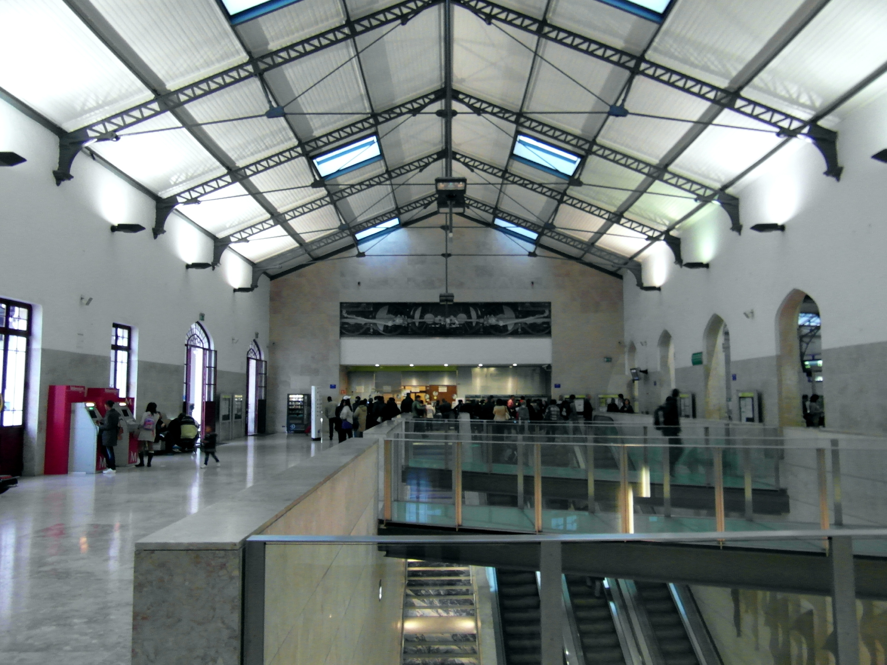 Rossio train station, Lisbon, Portugal